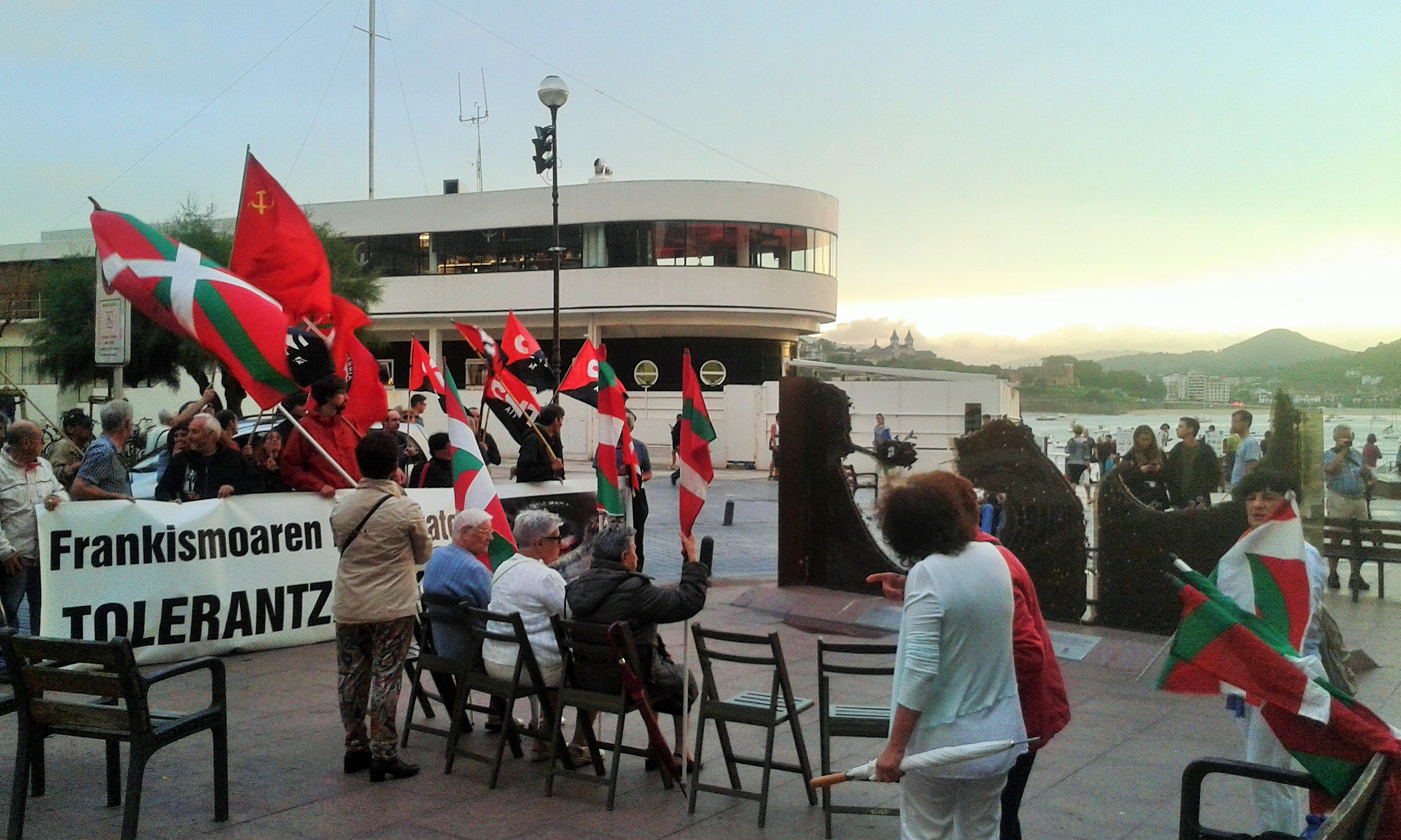 Tribute to the victims of the Spanish Nationalists occupying Donostia-San Sebastián on 13 September 1936